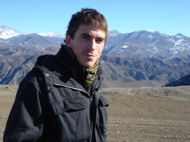 Simon Reeve on the border in the unrecognised nation Nagorno-Karabakh.